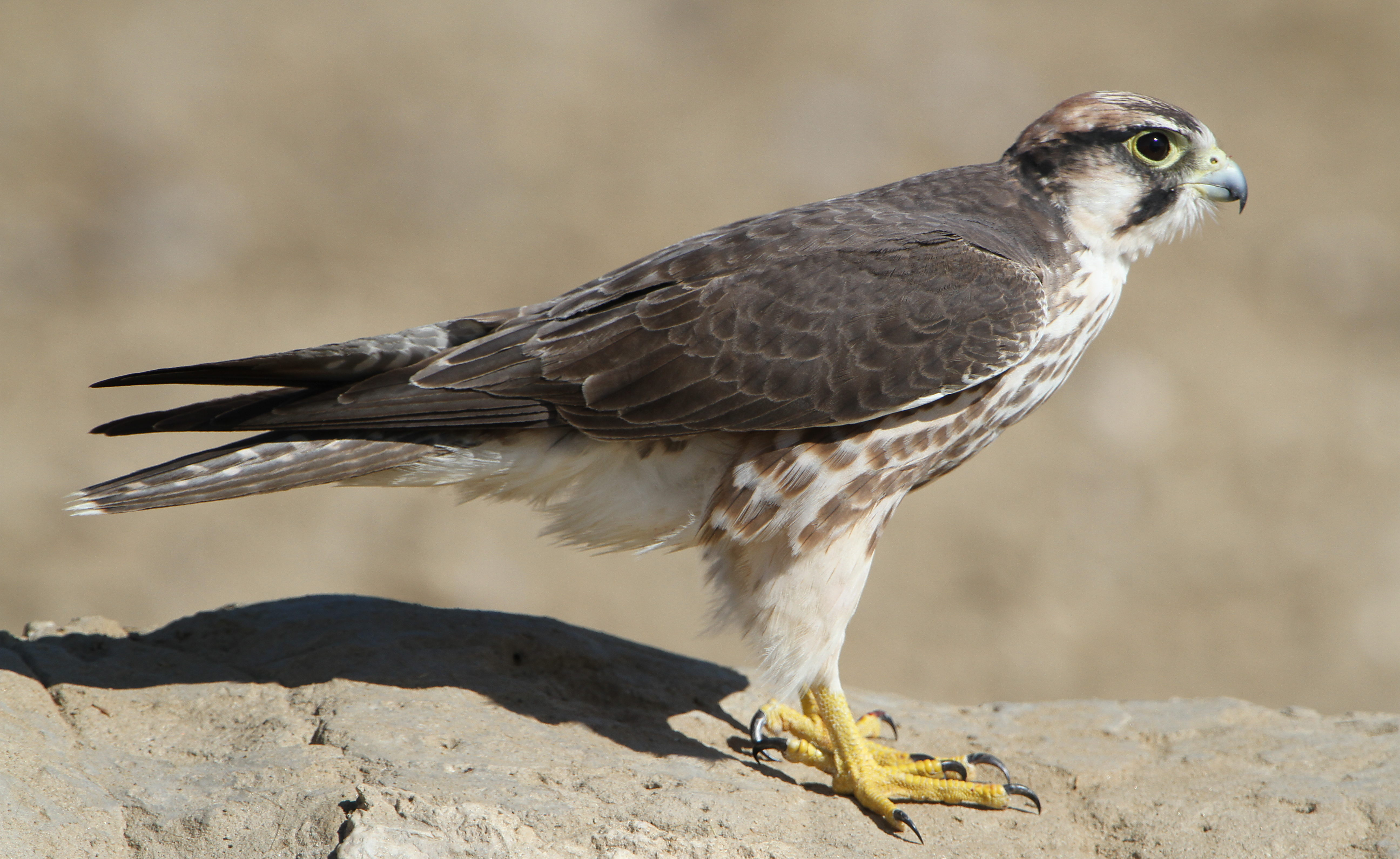 Lanner falcon, Falco biarmicus, at Kgalagadi Transfrontier Park, Northern Cape, South Africa